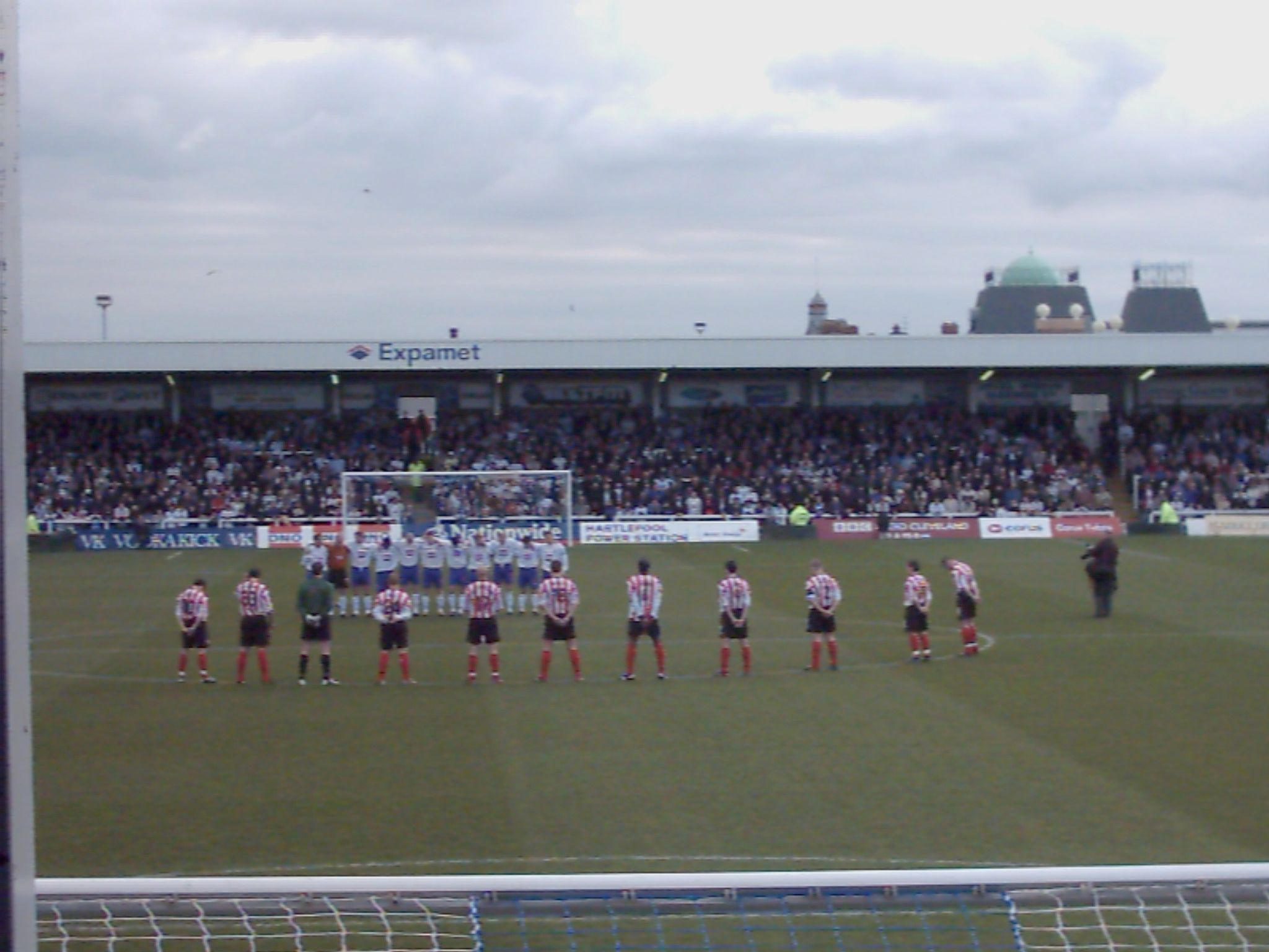 Taken by SuperBFC on 2004-03-27 with TCM 3.2 MPix Camera. Image enhanced in Irfanview.